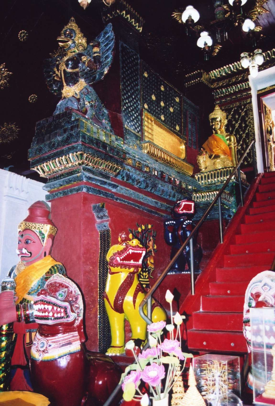 Viharn Phra Song Ma in Wat Mahathat, Nakhon Si Thammarat, Thailand. The Viharn contains the staircase which leads to a walkway around the chedi of Wat Mahathat. On both sides of the staircase are many decorations, at the bottom a giant, three lions, above a garuda, and next to the door a small buddha statue and a buddha footprint.